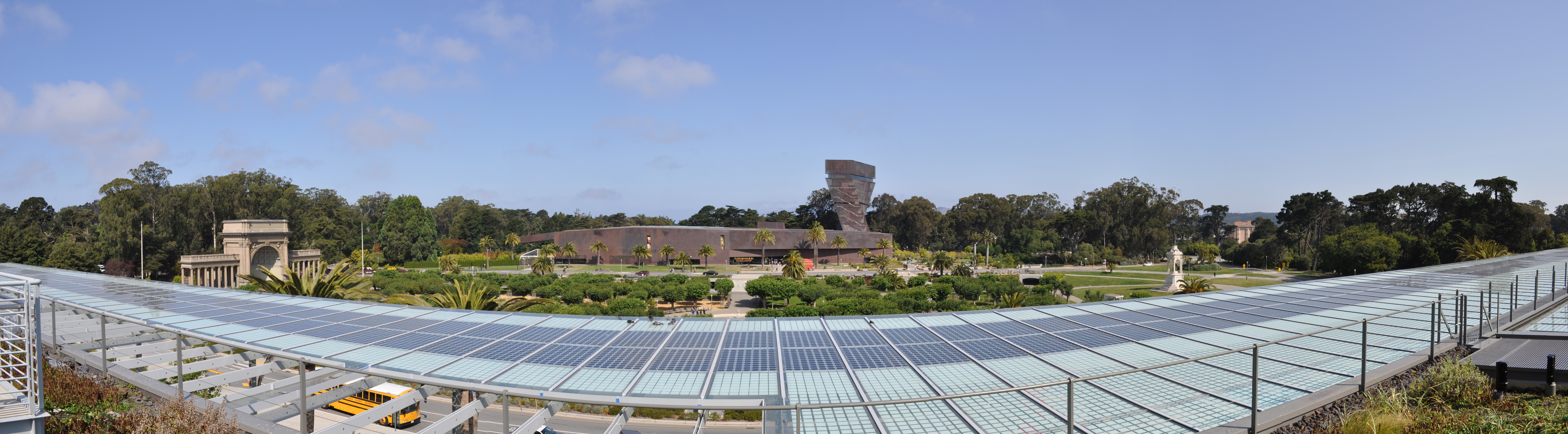 Panorama comprised of several images of the Music Concourse and De Young Museum in Golden Gate Park, San Francisco, California, USA, seen from the roof of the California Academy of Sciences. In foreground is the canopy of the roof of the Academy of Sciences, with its photovoltaic cells. Toward the left is the bandshell, officially Spreckels Temple of Music. Straight across is the De Young Museum. Three quarters of the way to the right is the Star Spangled Banner Monument, a memorial to Francis Scott Key.